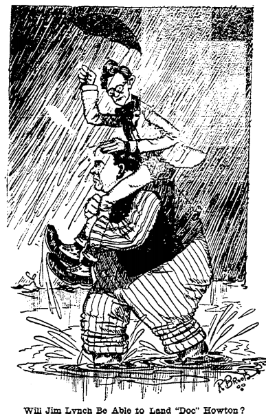 Los Angeles Times political cartoon showing Arthur D. Houghton, with umbrella, on back of large man in a rainstorm.